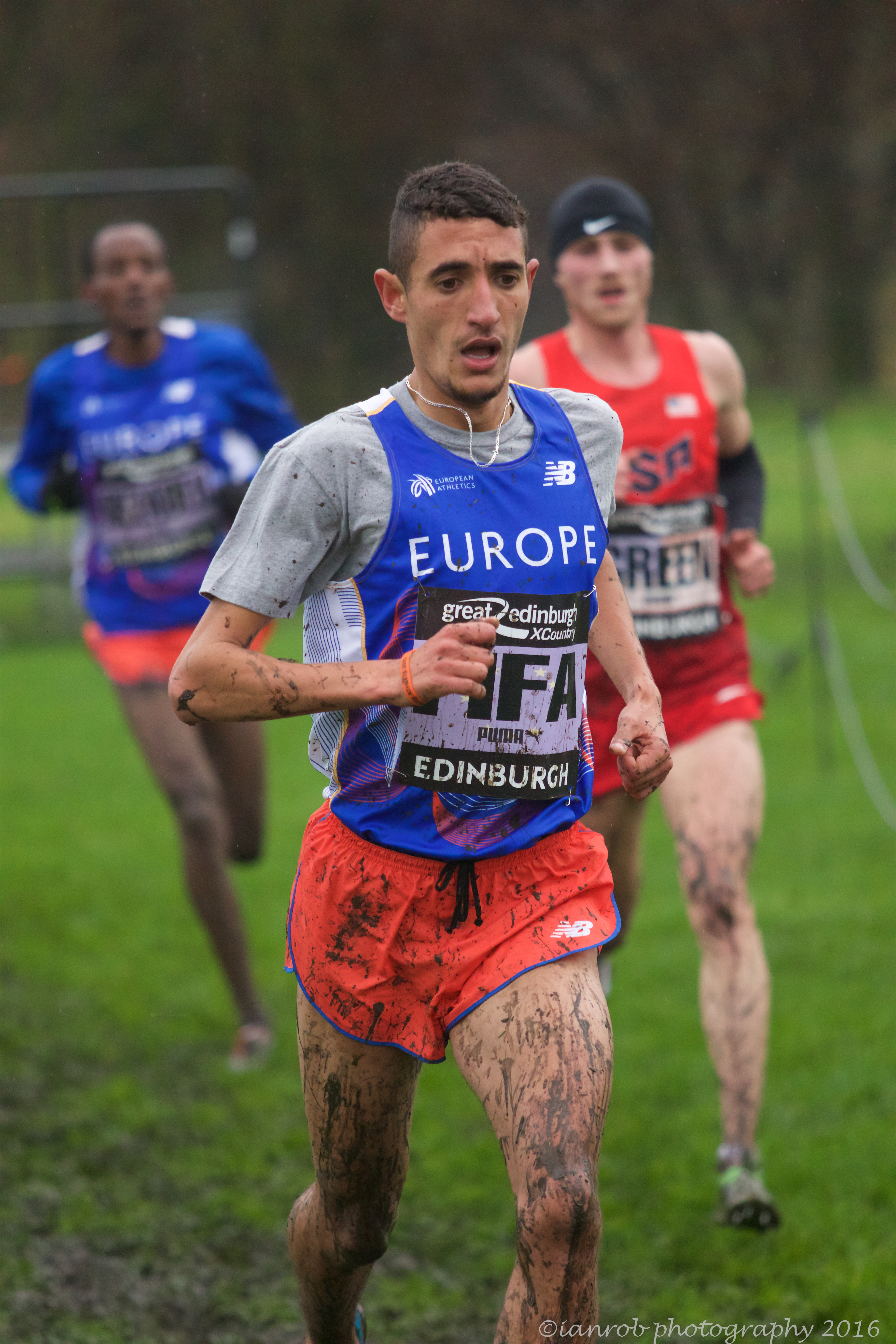 Great Edinburgh International Cross Country 2016 – Senior Men's 8 km